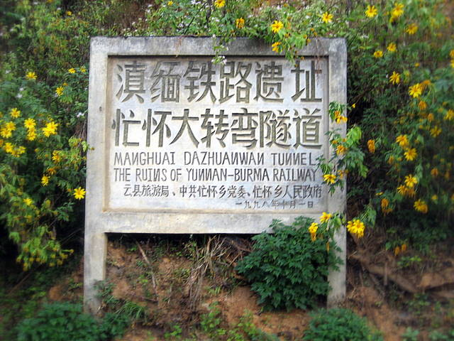 Picture of the commemorative sign at the site of the Manzhuan tunnel along the old Yunnan-Burma railway. (Tunnel entrance now covered over, only sign is visible)